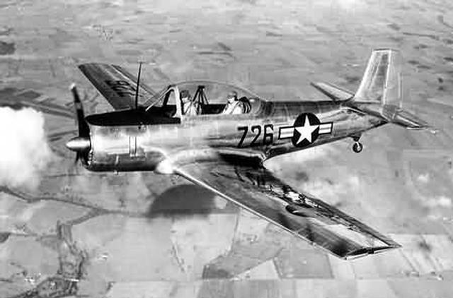 Fairchild XNQ-1 in flight. Prototype trainer aircraft developed for the United States Navy, but not put into production.